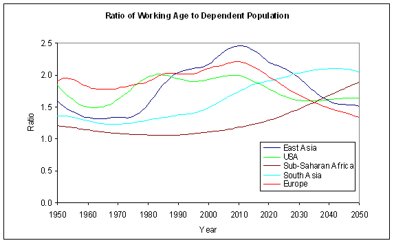 Inverse dependency ratio (workers per dependent) in world regions, 1950–2050 (historical and projected).